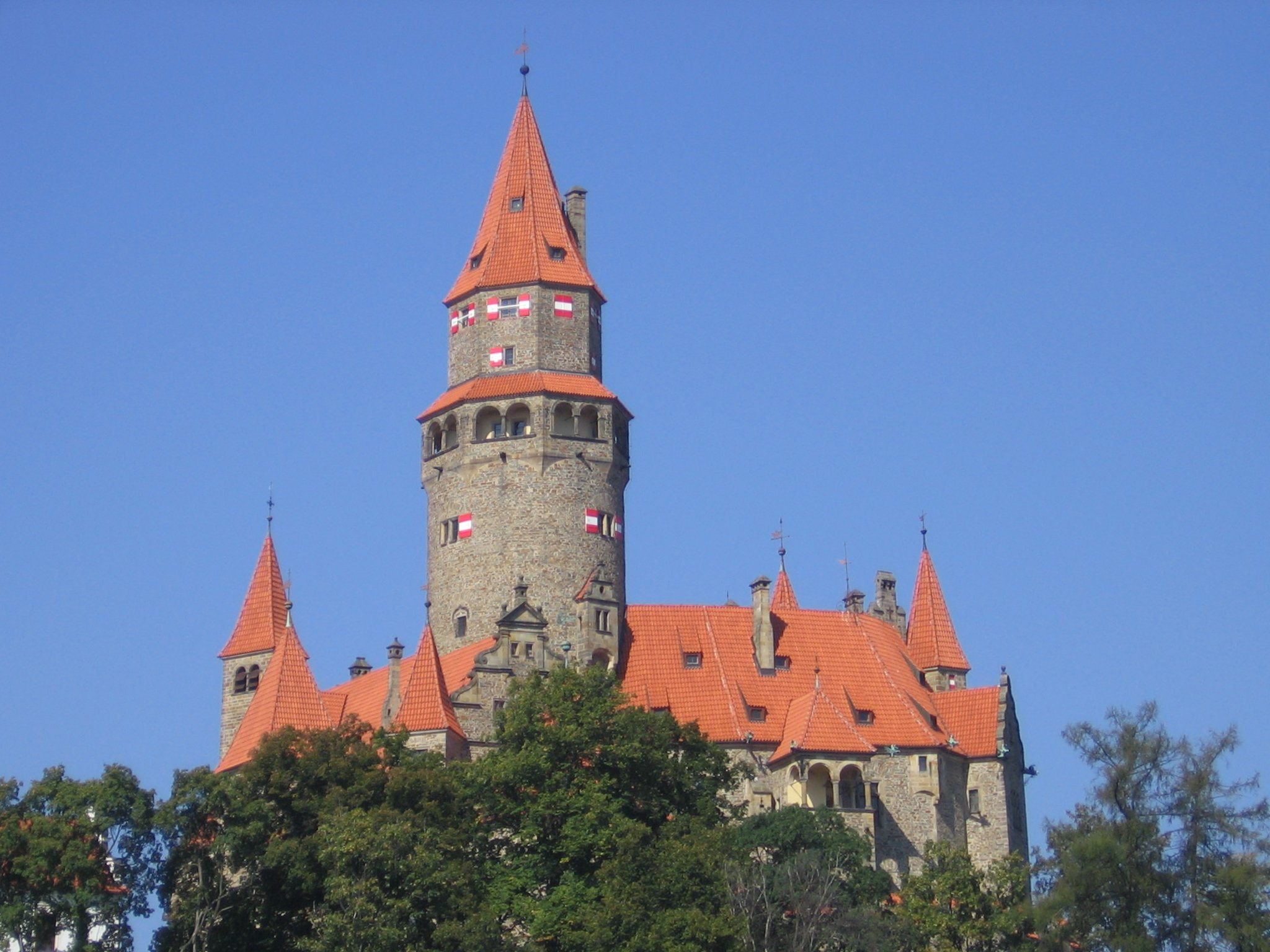 Bouzov Castle in Olomouc District (Olomouc Region, Czech Republic)